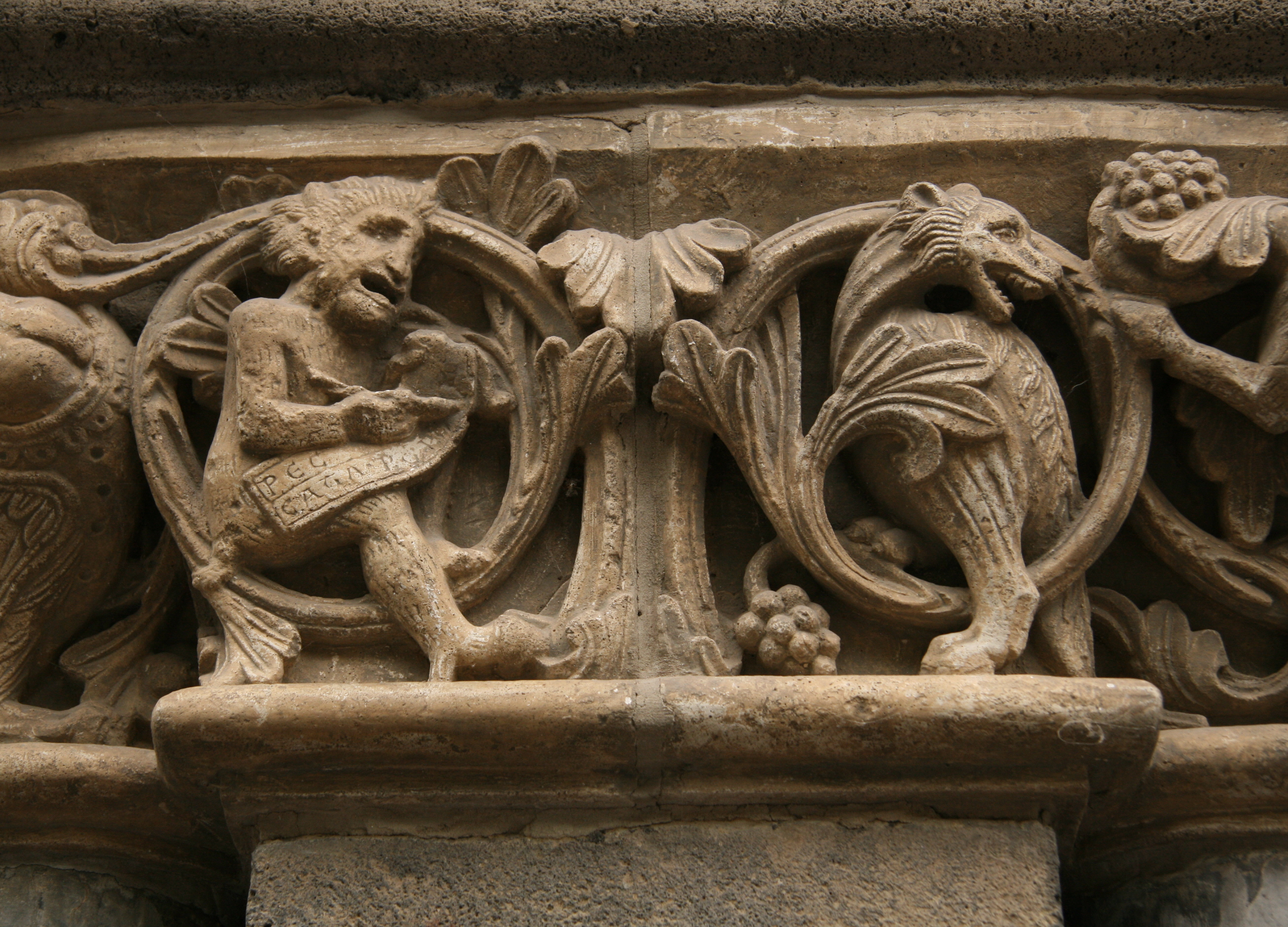 Maria Laach Abbey, the Devil is writing down the sins of the visitors